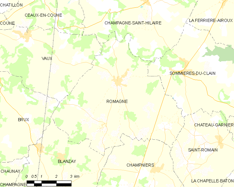 Map of French municipality Romagne